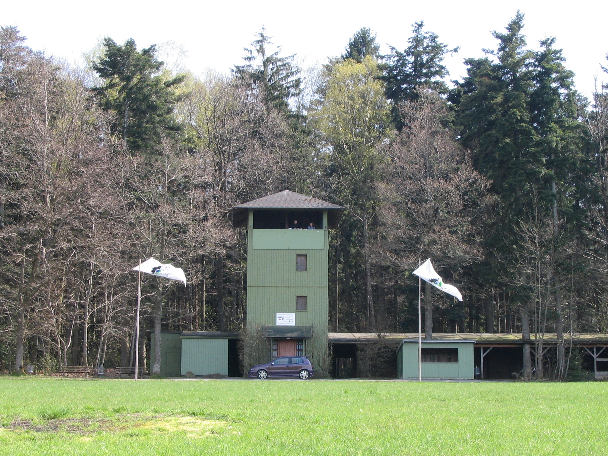 Schwanner Warte in Straubenhardt, Germany with the Black Forest in the background